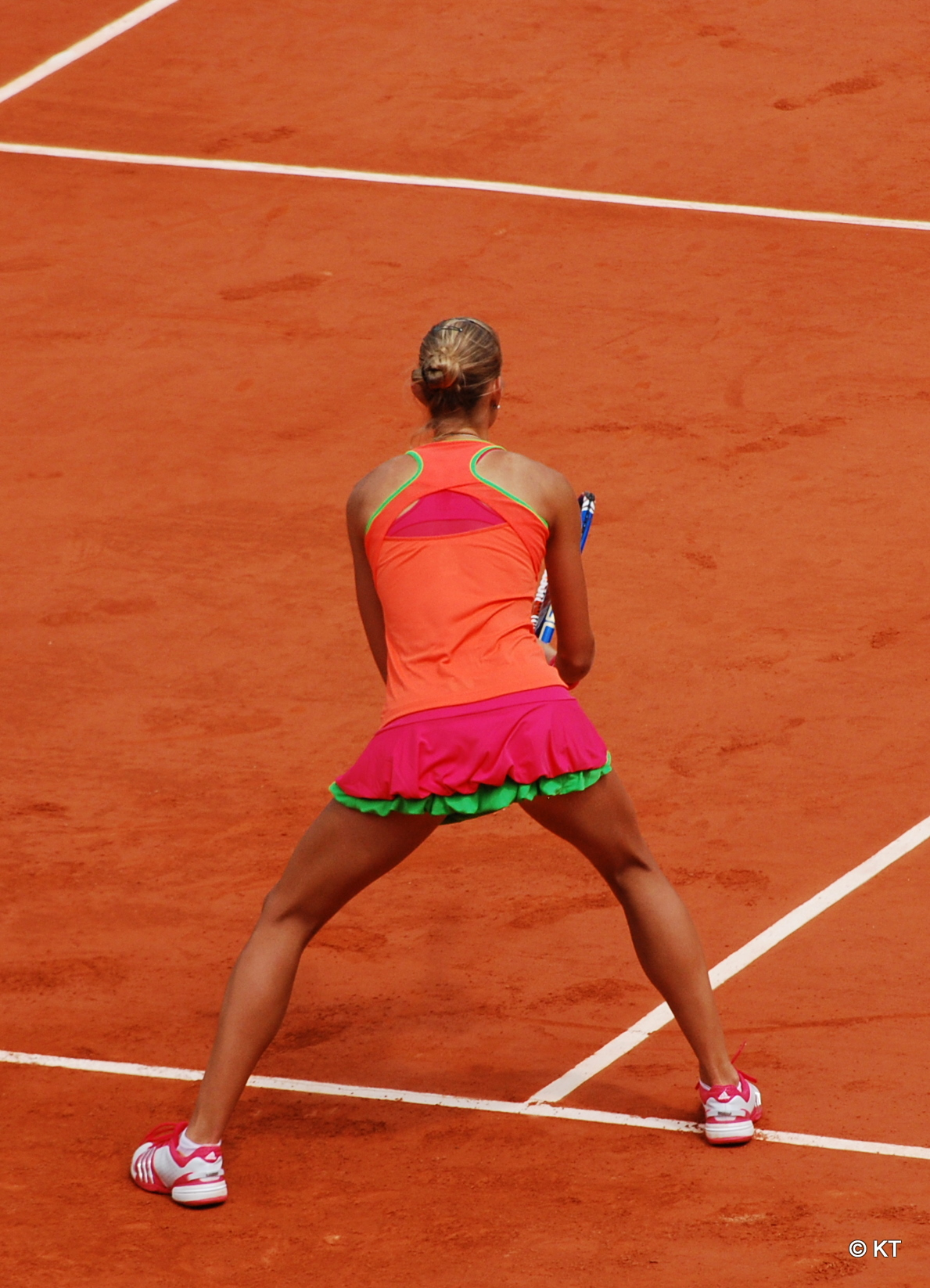 Arantxa Rus in her second round match with Kim Clijsters. Day 5 of Roland Garros 2011.